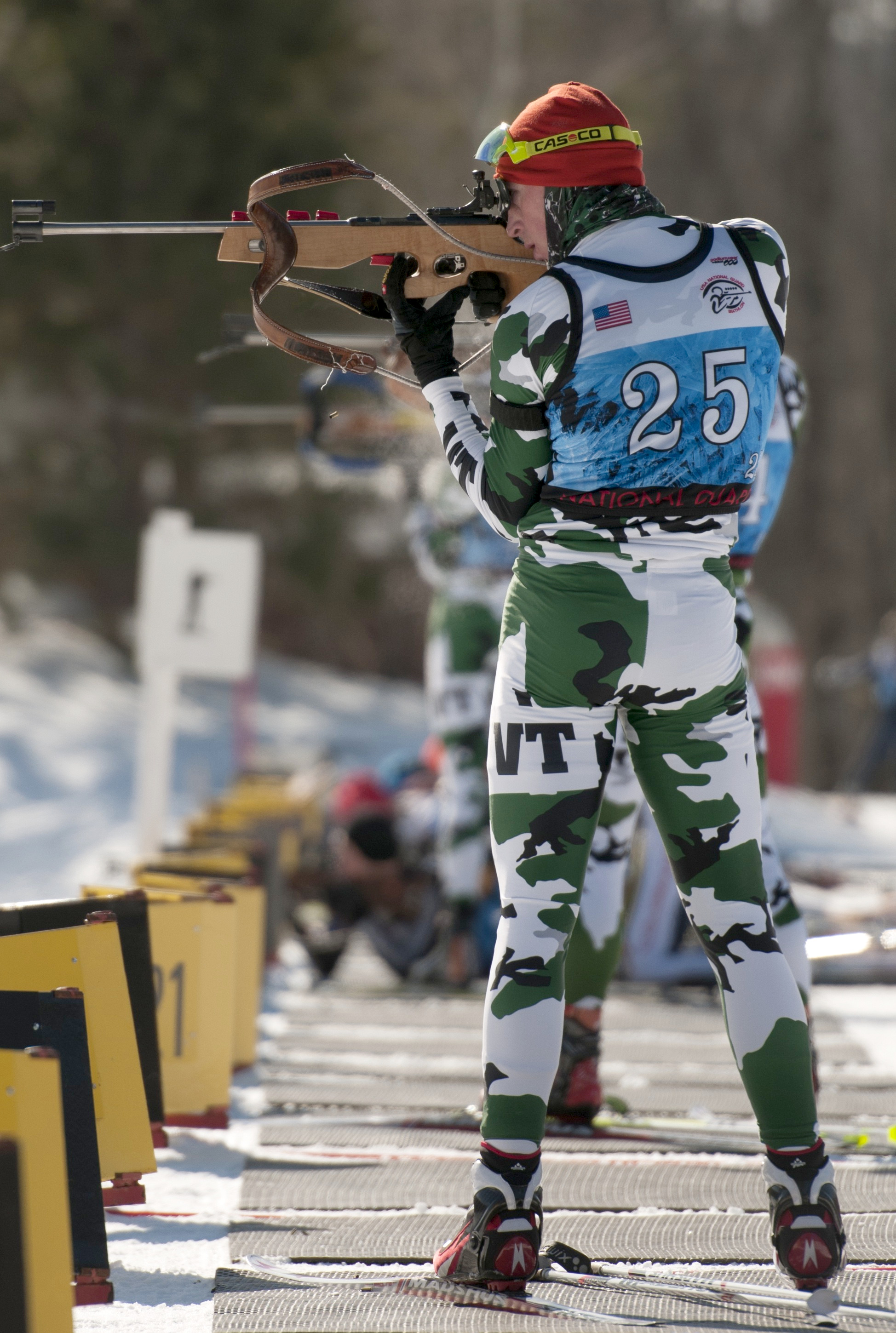 U.S. Army Pfc. Wynn Roberts, a member of the Vermont National Guard, prepares to shoot during the senior men's pursuit race at the Ethan Allen Firing Range, Jericho, Vt., March 3, 2014. Over 140 athletes from 21 different states are participating in the 2014 National Guard Bureau Biathlon Championships. (U.S. Air National Guard photo by Staff Sgt. Sarah Mattison)